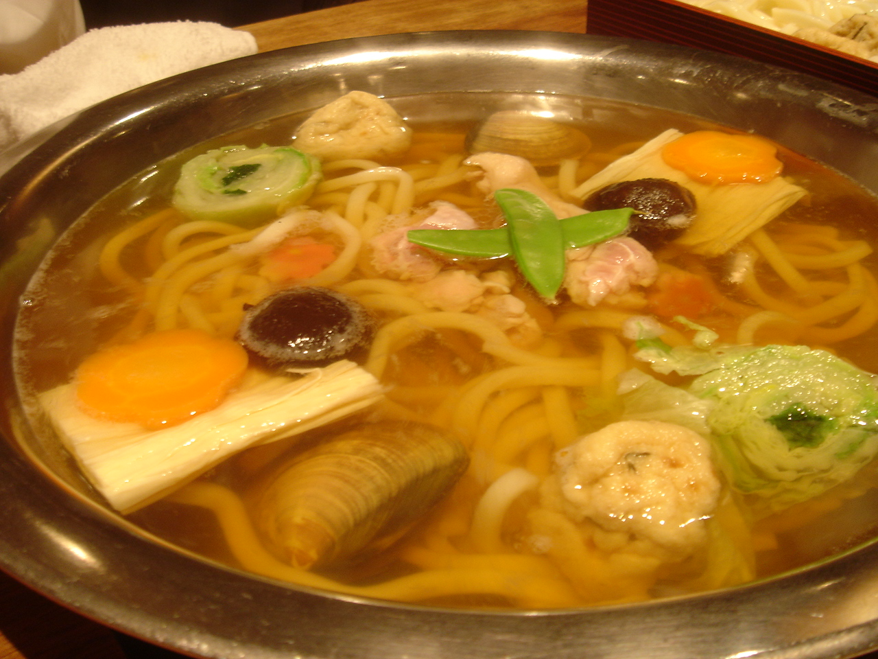 at mimiu, tokyothe udonsuki(c)!